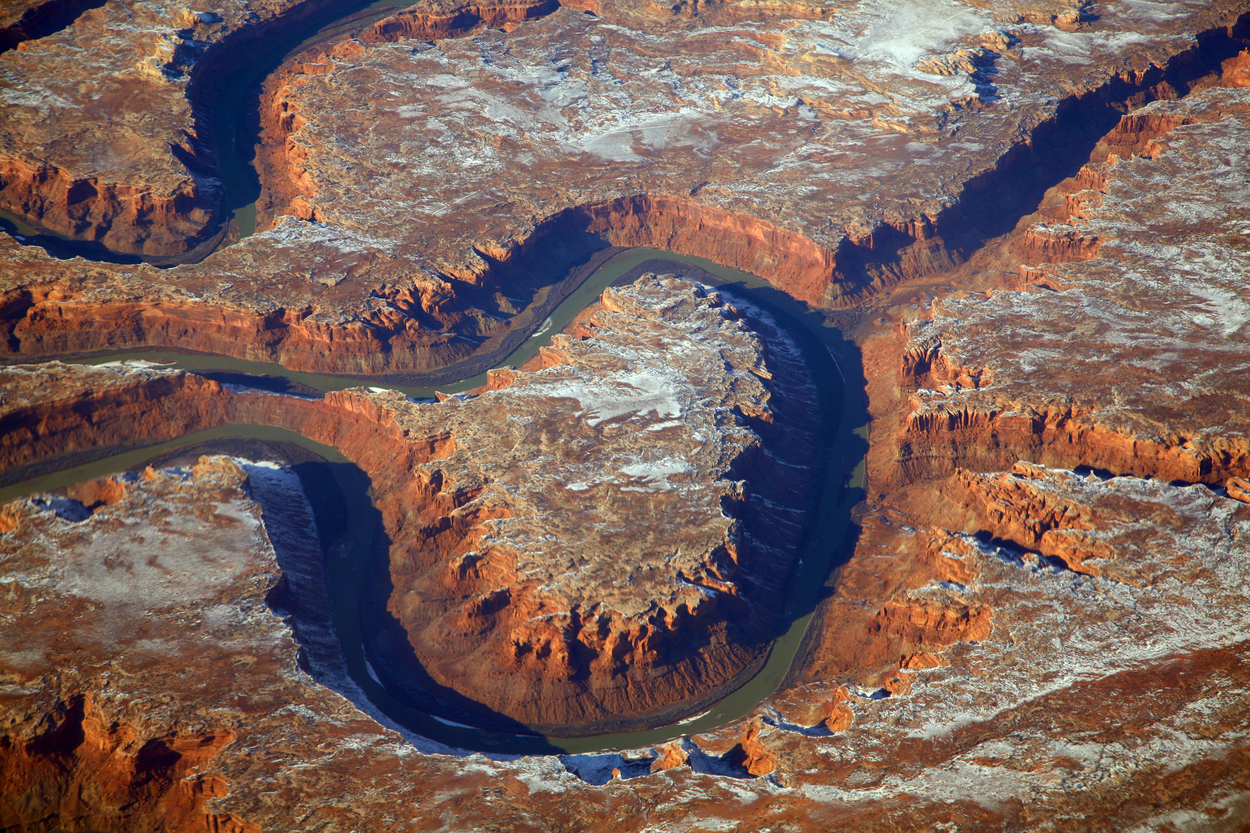 Bowknot Bend on the Green River in Utah's San Rafael Desert. Spring Canyon runs to the top right, or northeast. Deadman Point is on the bottom right. The view is to the north.